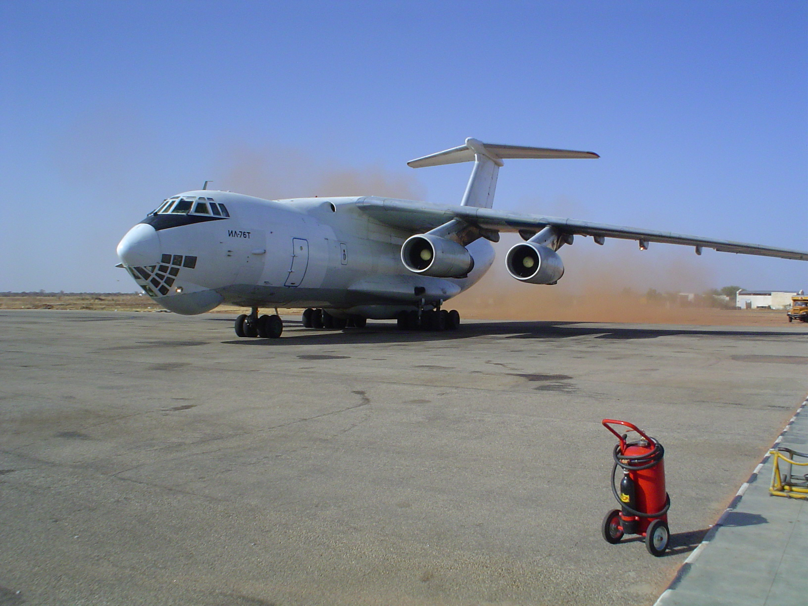 Caption: USAID plastic sheeting arrives in Nyala – A USAID-chartered Ilyushin-76 airplane lands at an airstrip in Nyala, South Darfur. The plane carried 640 rolls of plastic sheeting to provide shelter for more than 40,000 conflict-affected people.